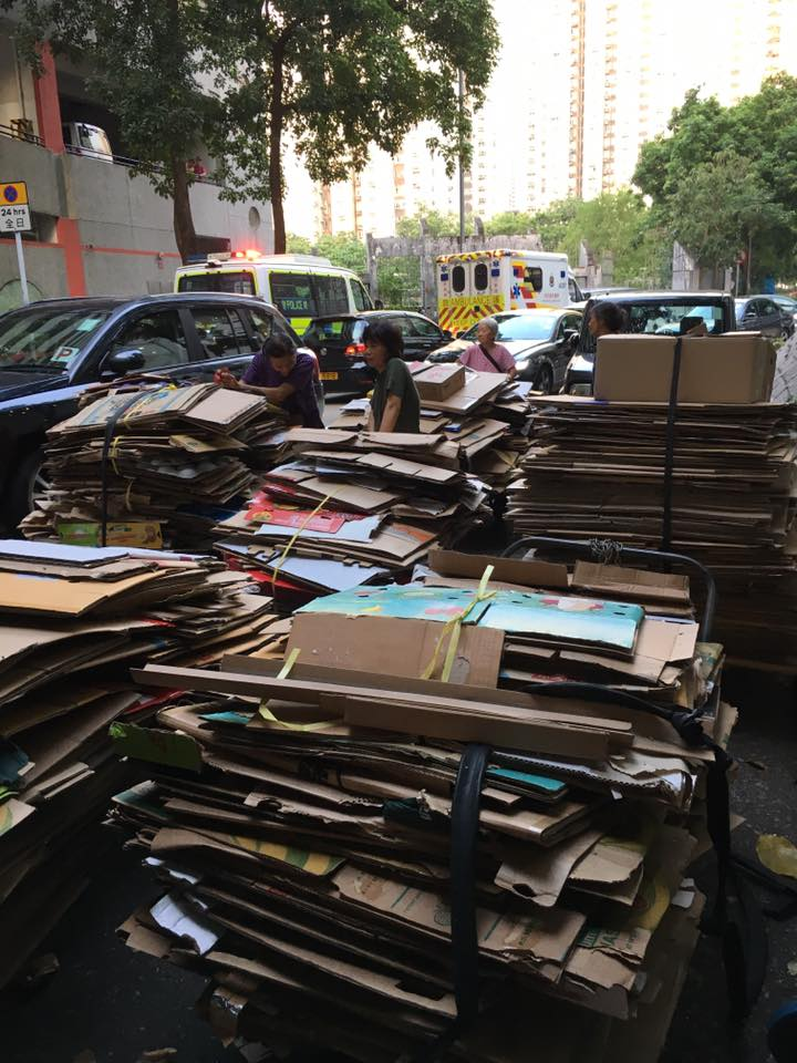 street collection in waste paper crisis